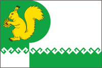 Morki rayon (Mariy-El), flag